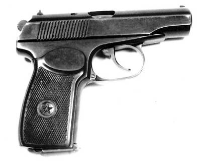 Makarov PM